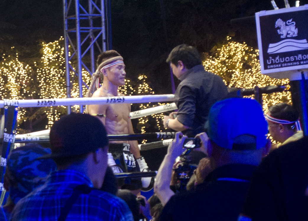 Singmanee Kaewsamrit